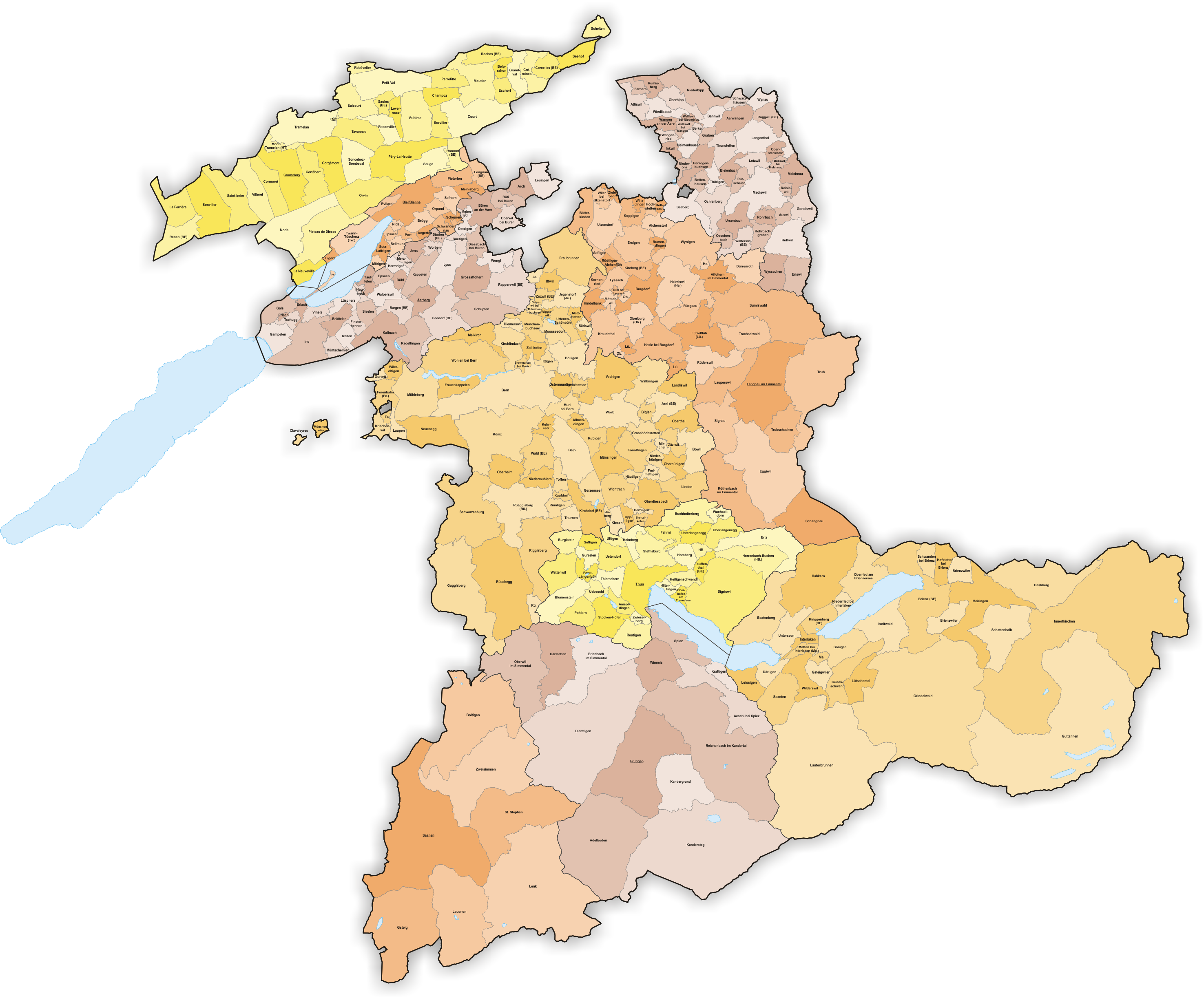 Municipalities in Canton Bern